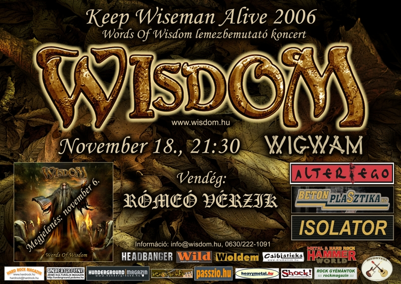 This flyer was made for the Keep Wiseman Alive II show in 2006.